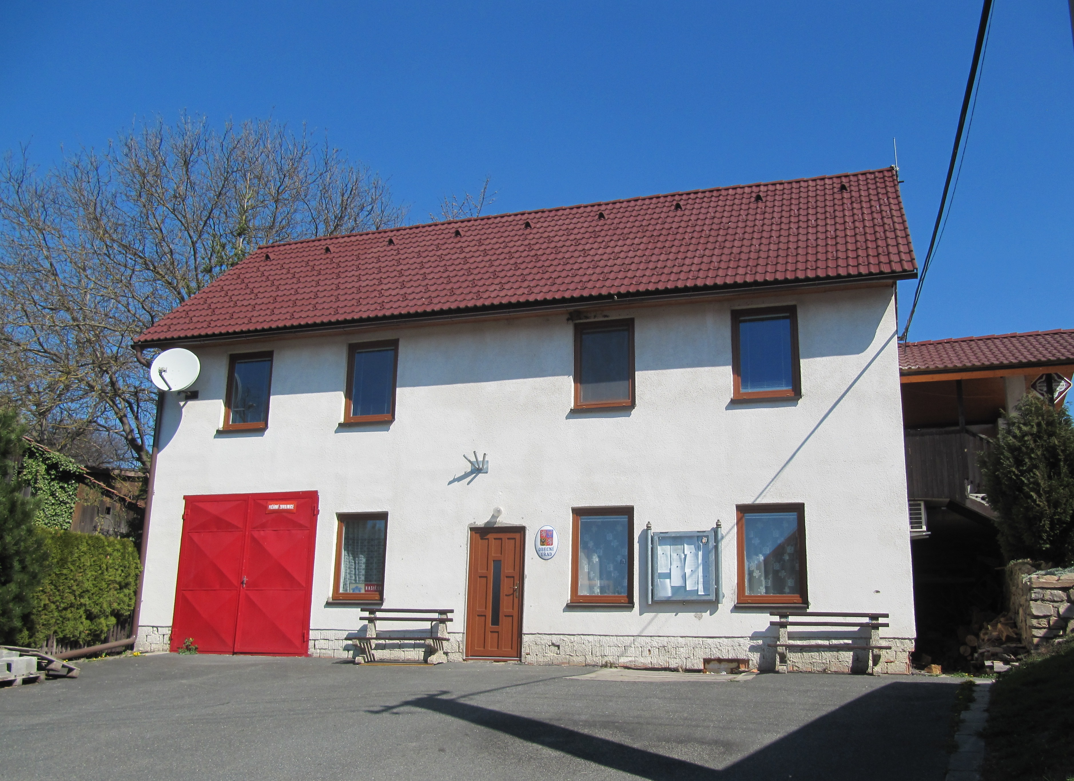 Chlum-Korouhvice, Žďár nad Sázavou District, Czechia, part Chlum.